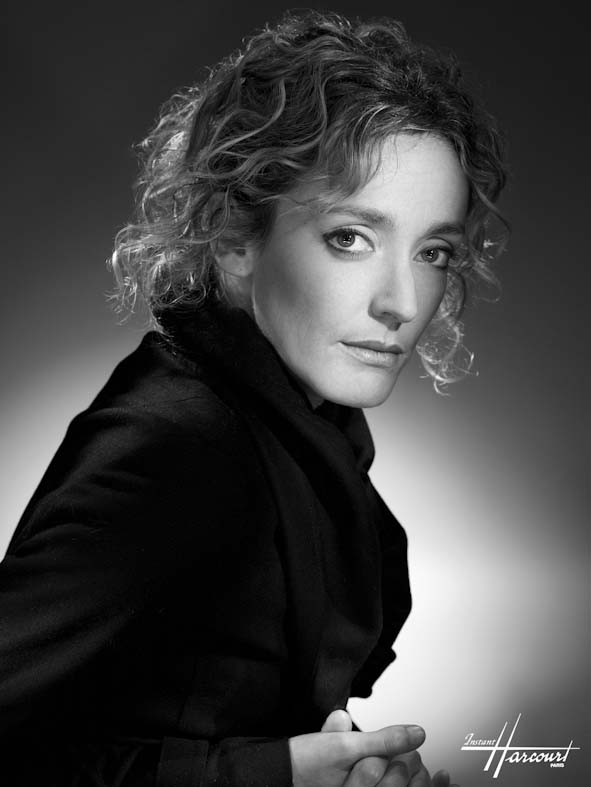 Juliette Arnaud photographed by Studio Harcourt Paris